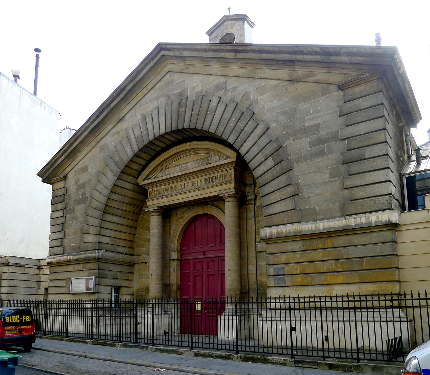 Chauchat street (n°16, église de la Rédemption) - Paris